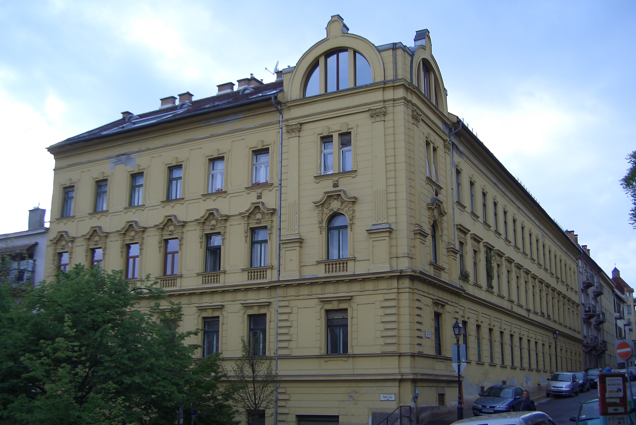 Budapest, District I. Corner of Logodi street / Mikó street (House No.1 Makó street), looking north-west